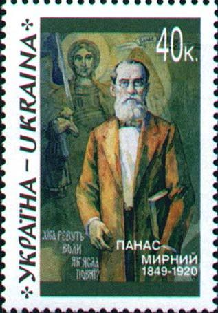 Panas Mirnii, Stamp of Ukraine